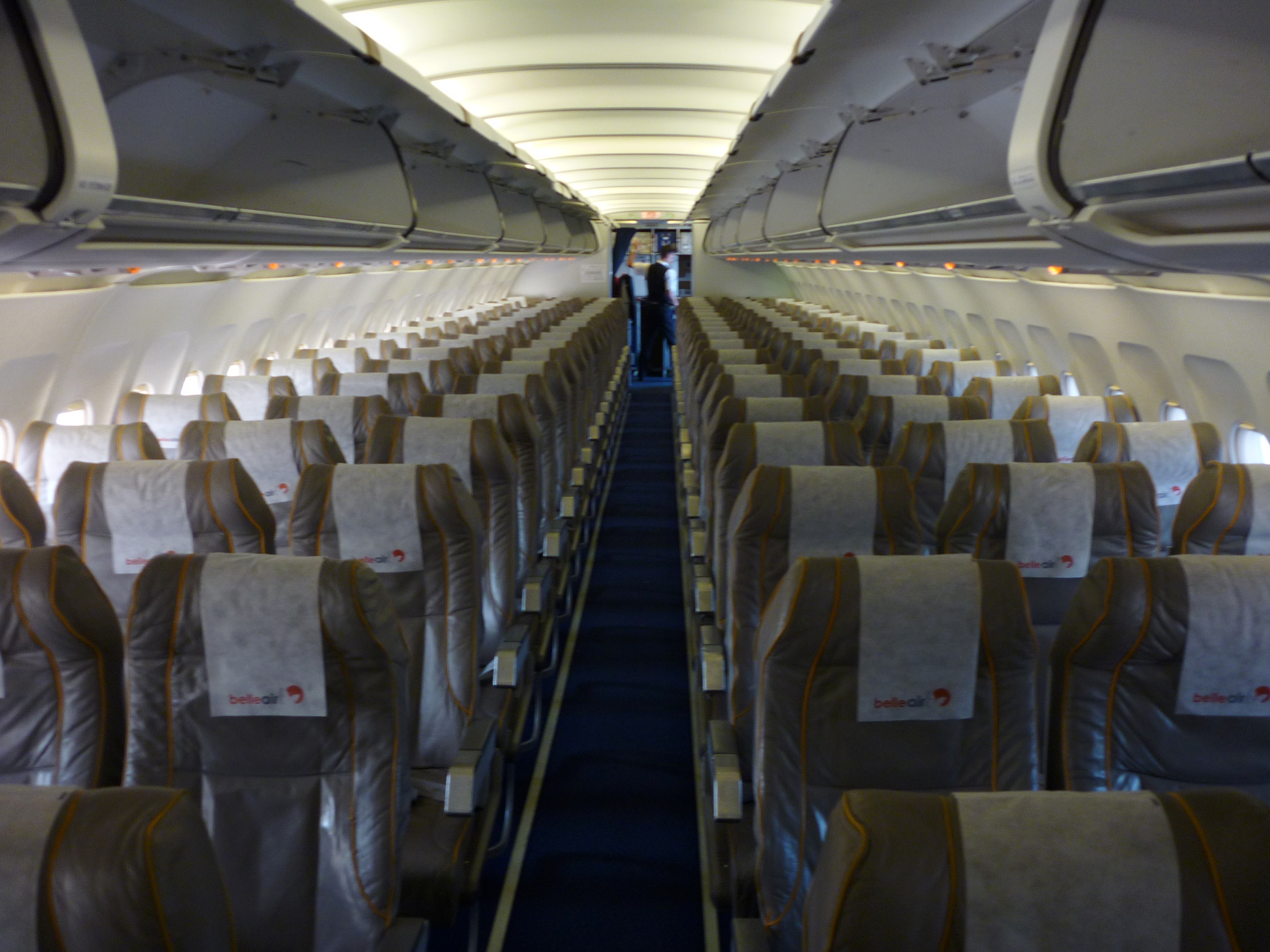 Cabin of the Belle Air Airbus A320-200 F-ORAD. The Aircraft is standing at Prishtina International Airport.